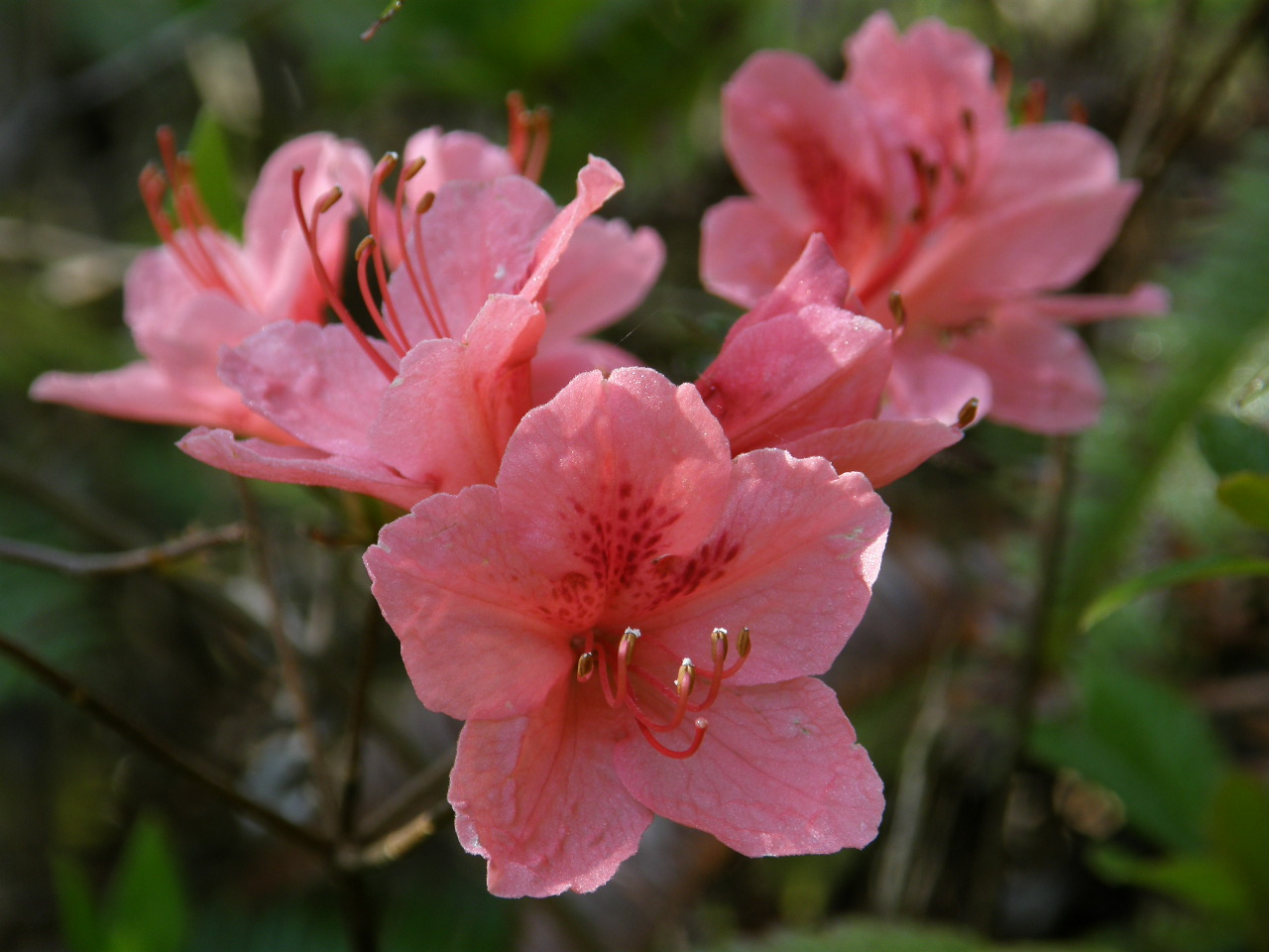 Rhododendron kaempferi var. kaempferi 、ヤマツツジ